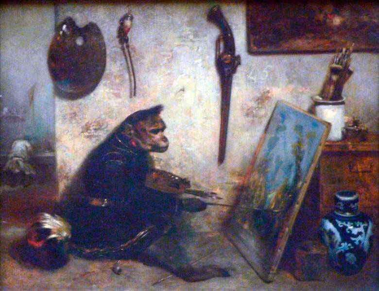 modified picture Image:Louvre-peinture-francaise-singe-peintre-p1020296.jpg